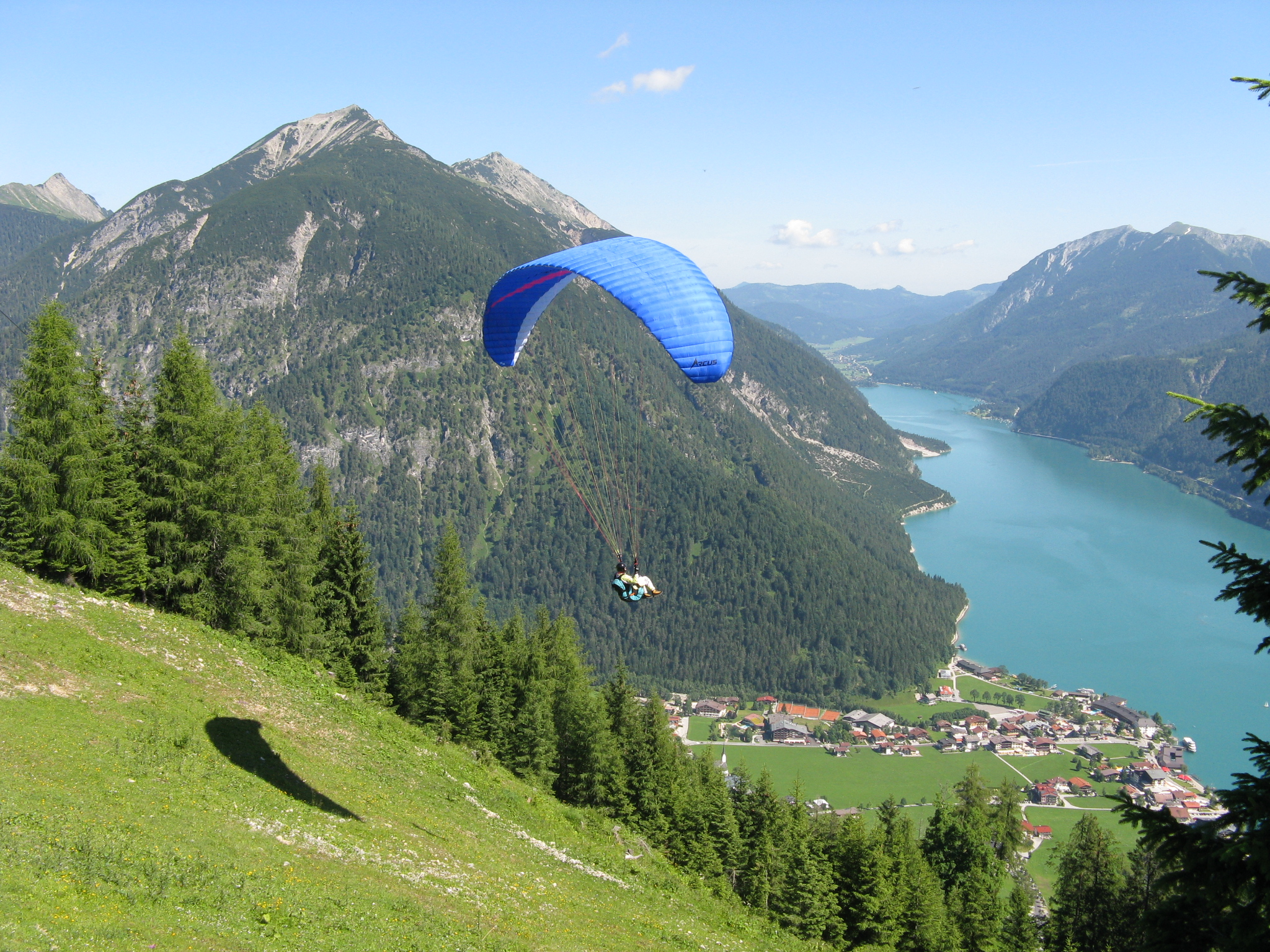 Zwölferkopf outlook (Achensee and Karwendel), near Pertisau/Tyrol, Austria